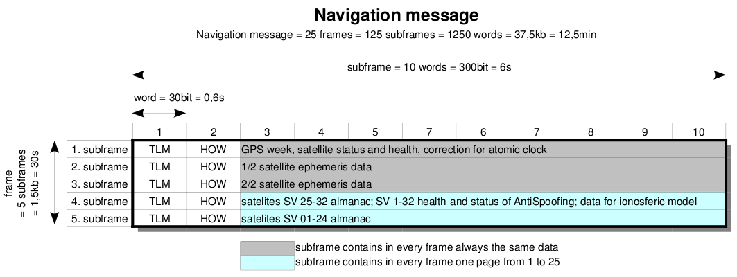 Structure of GPS navigation message